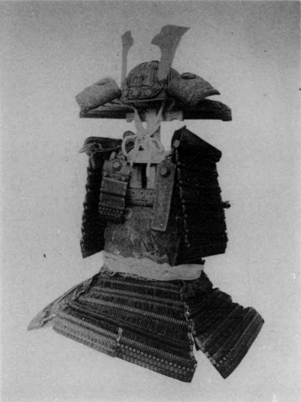 The O-Yoroi donated to Itsukushima-jinja by Ōuchi Yoshitaka in May 1542. An Important Cultural Property of Japan.